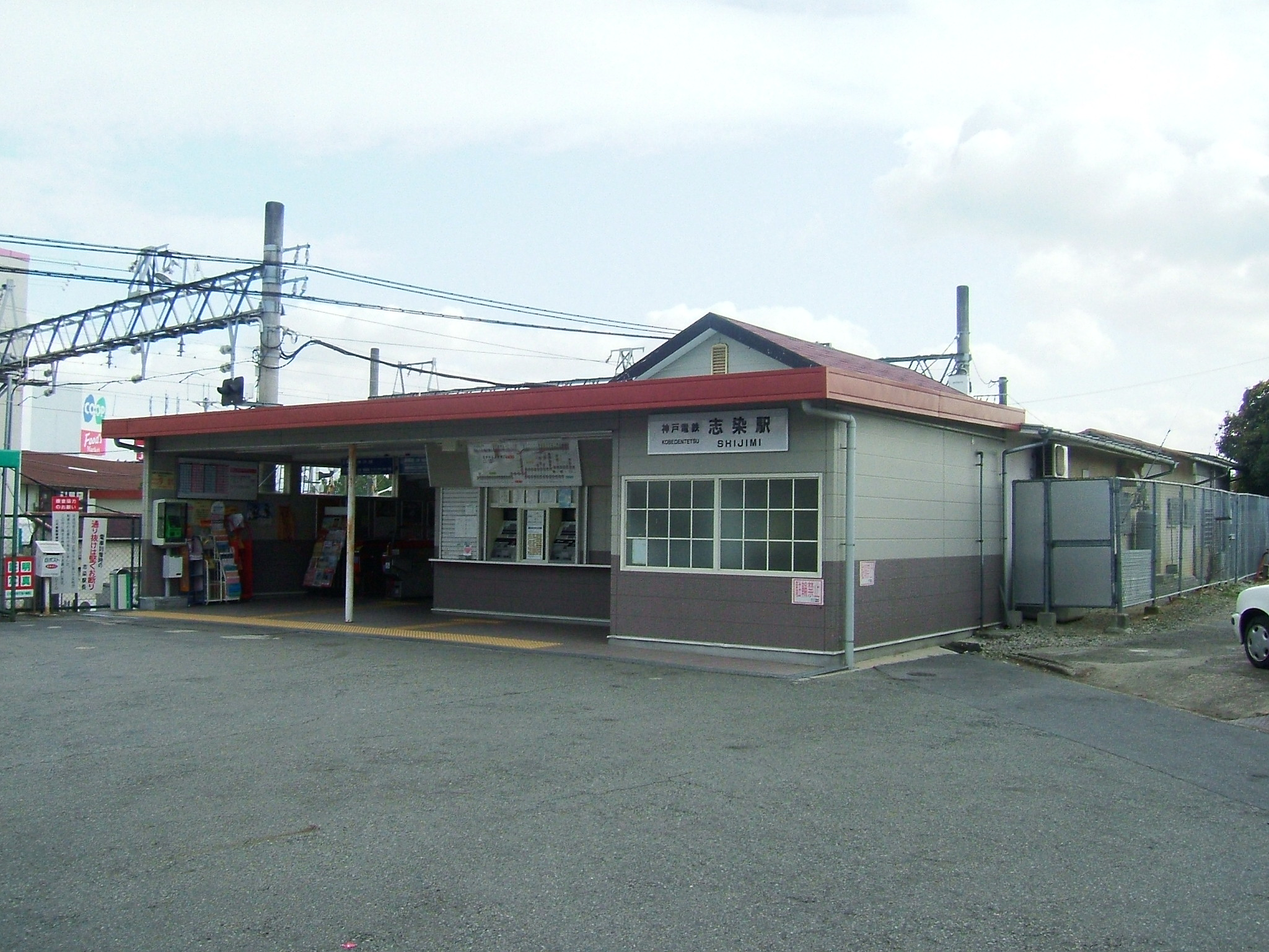 Kobe Electric Railway Shijimi Station